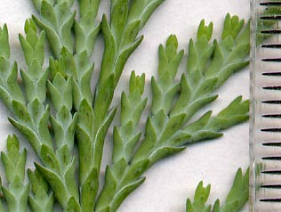 Lawson's Cypress foliage (enlarged; scale in mm) - photo User:MPF